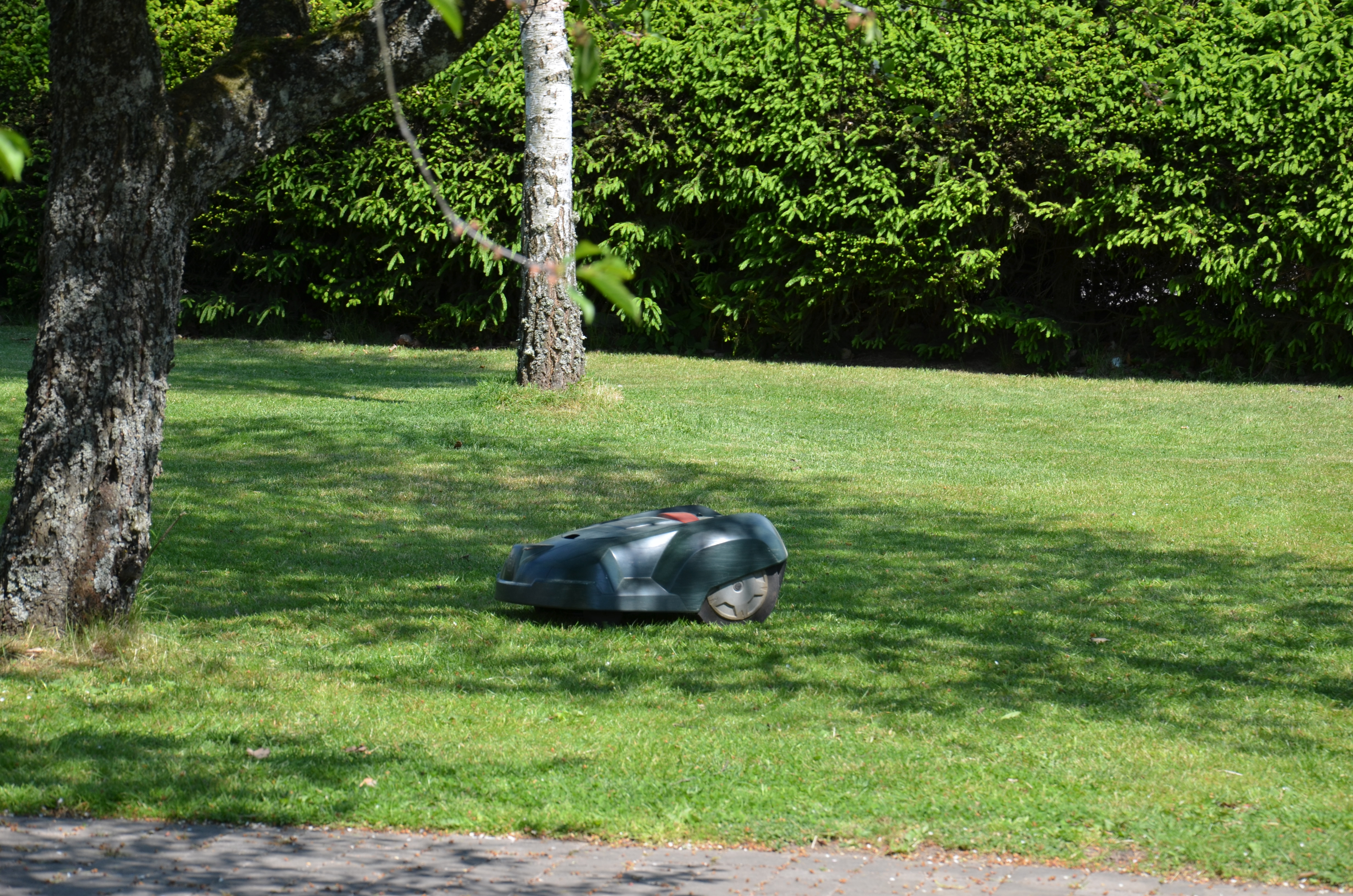 Husqvarna robotic lawn mover